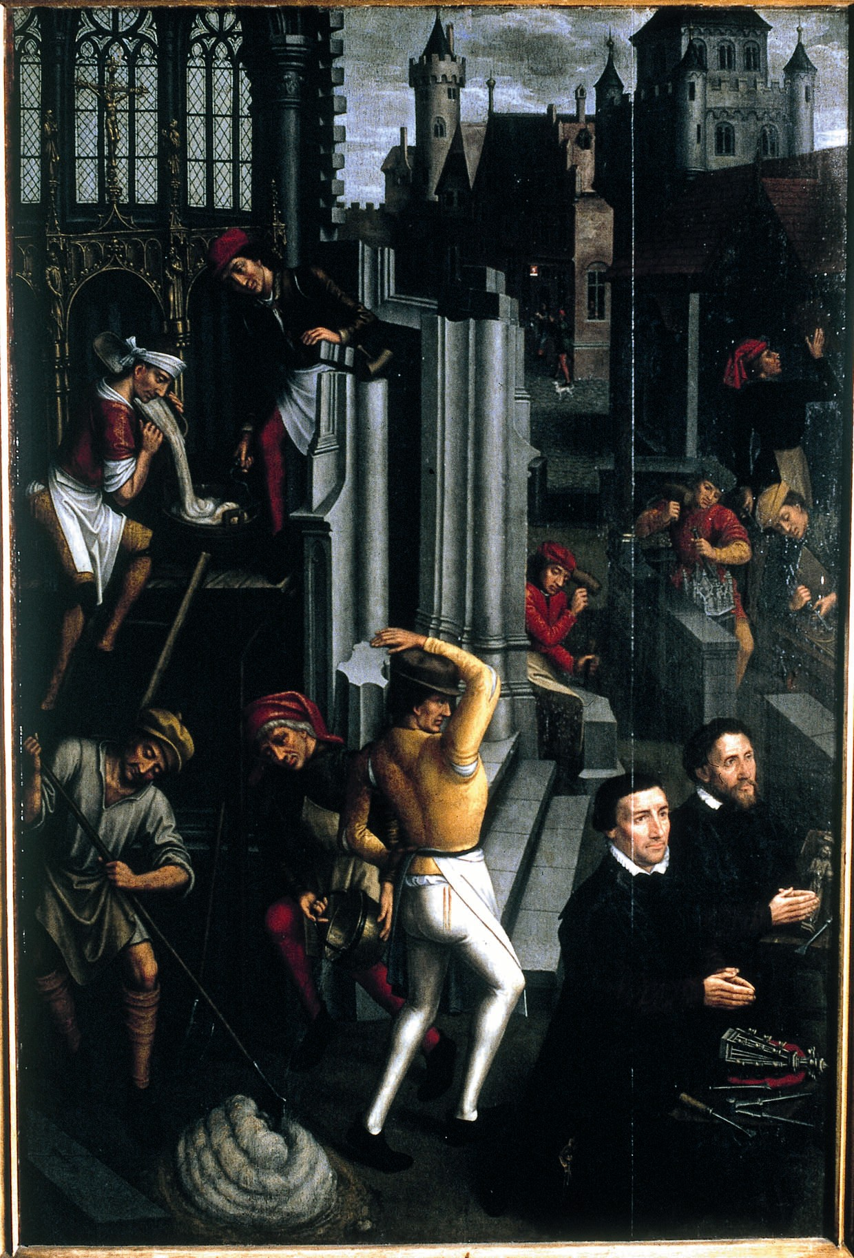 Left panel of the Triptych of the Four Crowned Martyrs (ca. 1560)